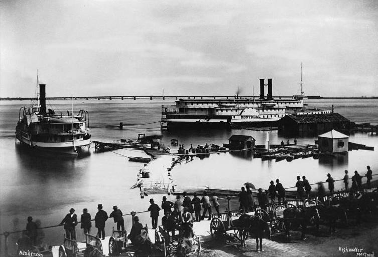 Photograph, Highwater, Montreal harbour, QC, about 1870, Alexander Henderson. Silver salts on paper mounted on card - Albumen process - 16 x 21 cm